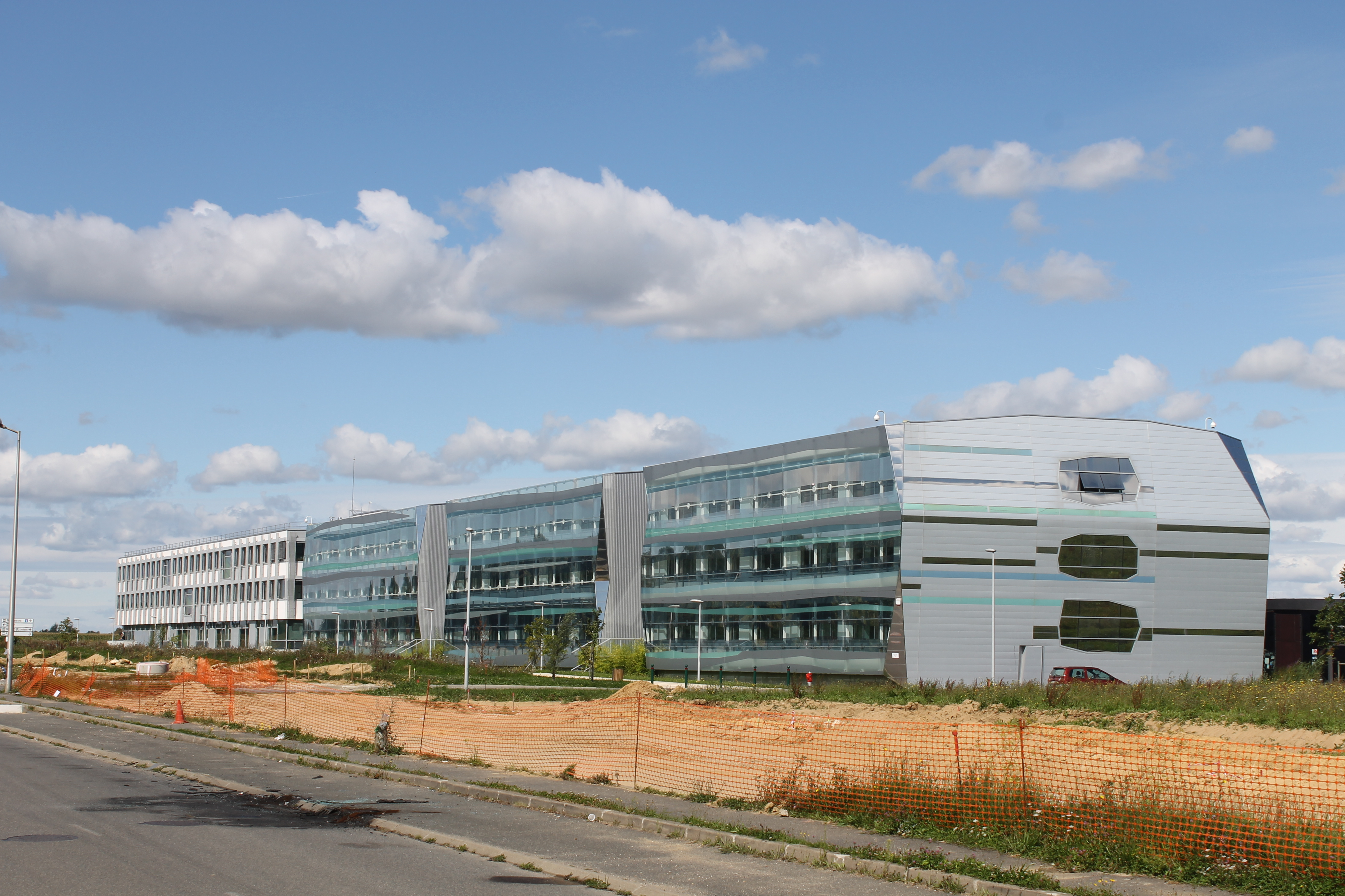 Digiteo's building in the research-intensive cluster Paris-Saclay, France (August 2014).